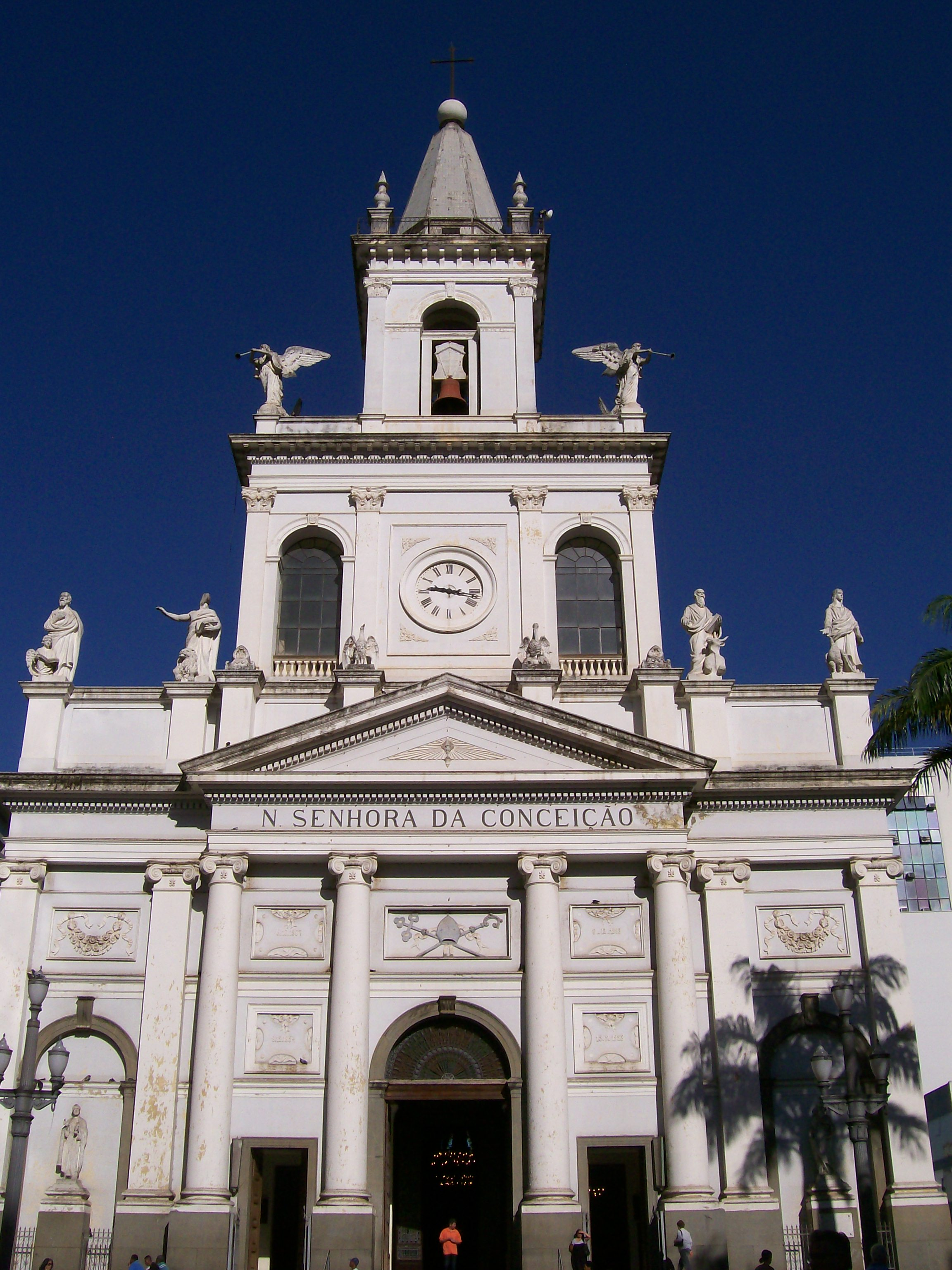 The Metropolitan Cathedral of Campinas, built between 1807 and 1883.